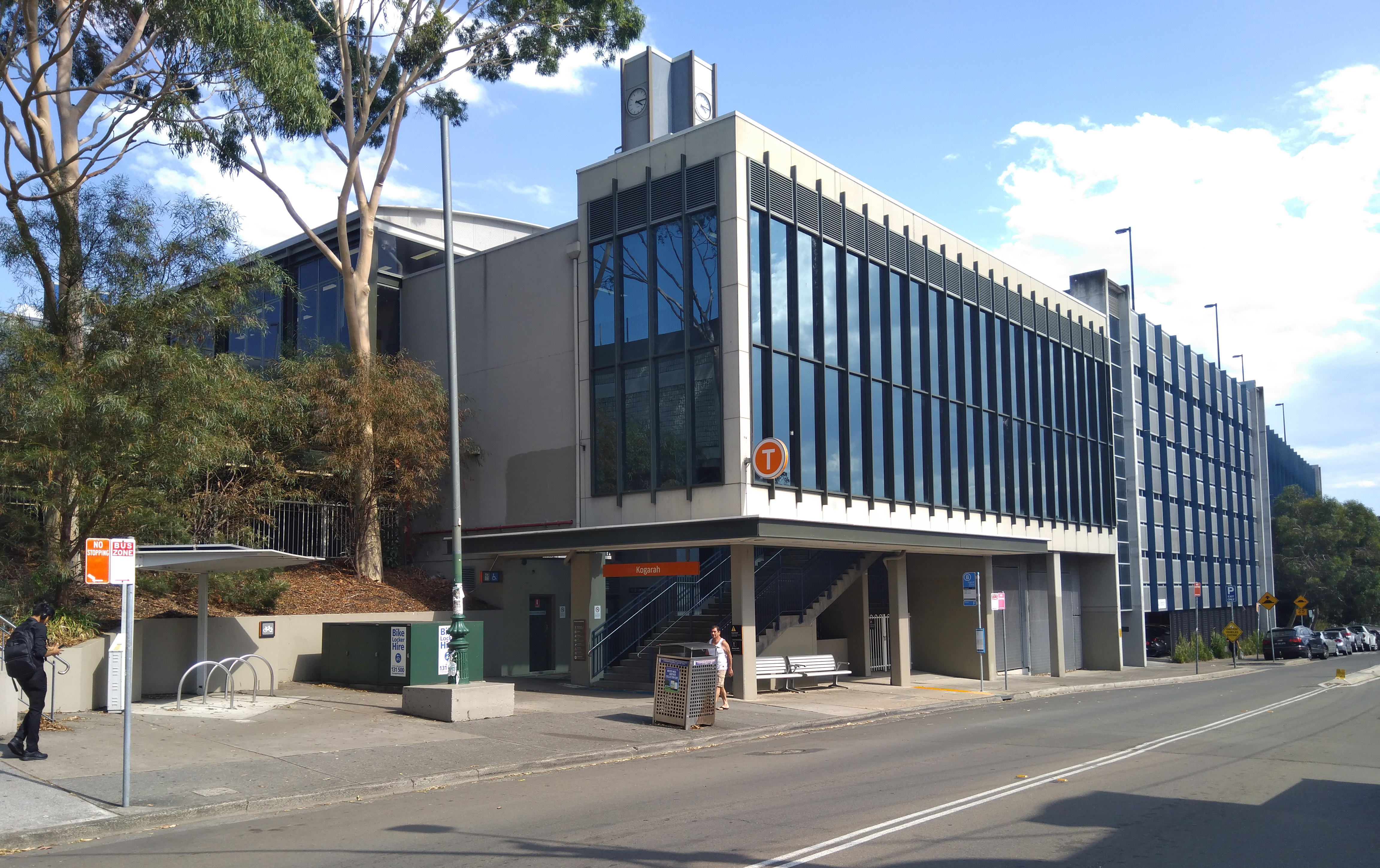 Western (Station St) entrance to Kogarah railway station